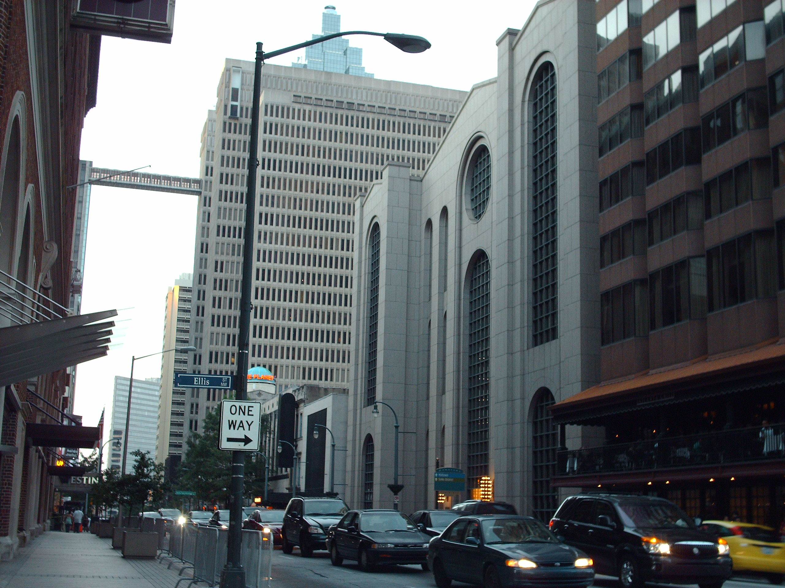 Looking north to the center of the Hotel District at the corner of Peachtree and Ellis Streets. The geographic center of Downtown Atlanta is the intersection of Peachtree Street and Andrew Young International Boulevard, which is the next block north from where this picture was taken. Photo taken by DukeArcTerex of English Wikipedia. Image:Hotel District.jpg by DukeArcTerex, 6/23/2008 22:54 (UTC)